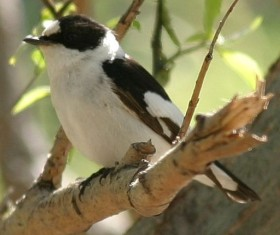 Collared Flycatcher northeastern Greece